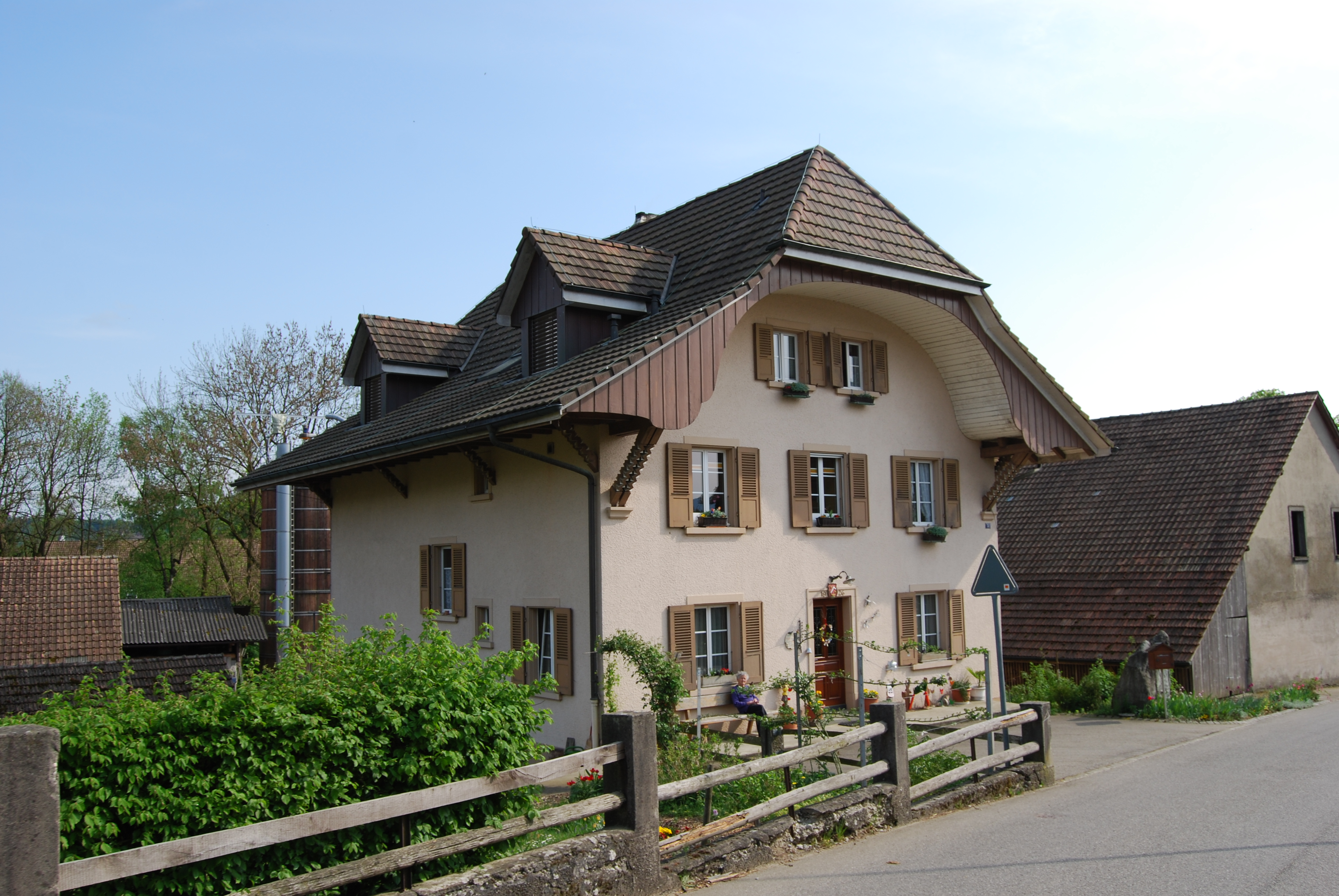 Boningen, canton of Solothurn, Switzerland